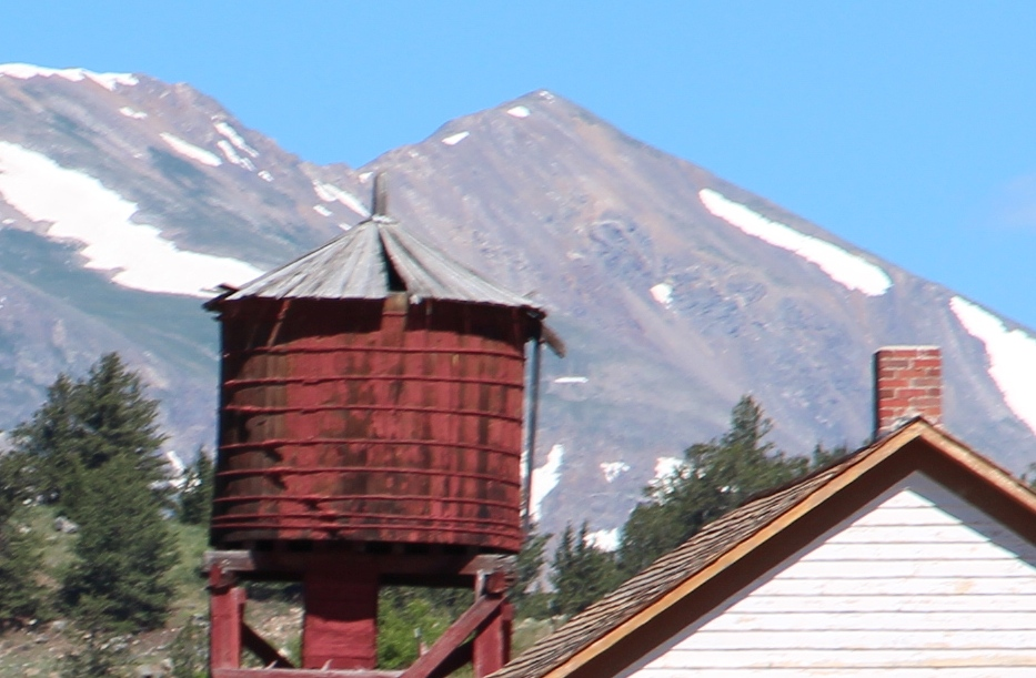 Mount Buckskin viewed from Fairplay, July 2016